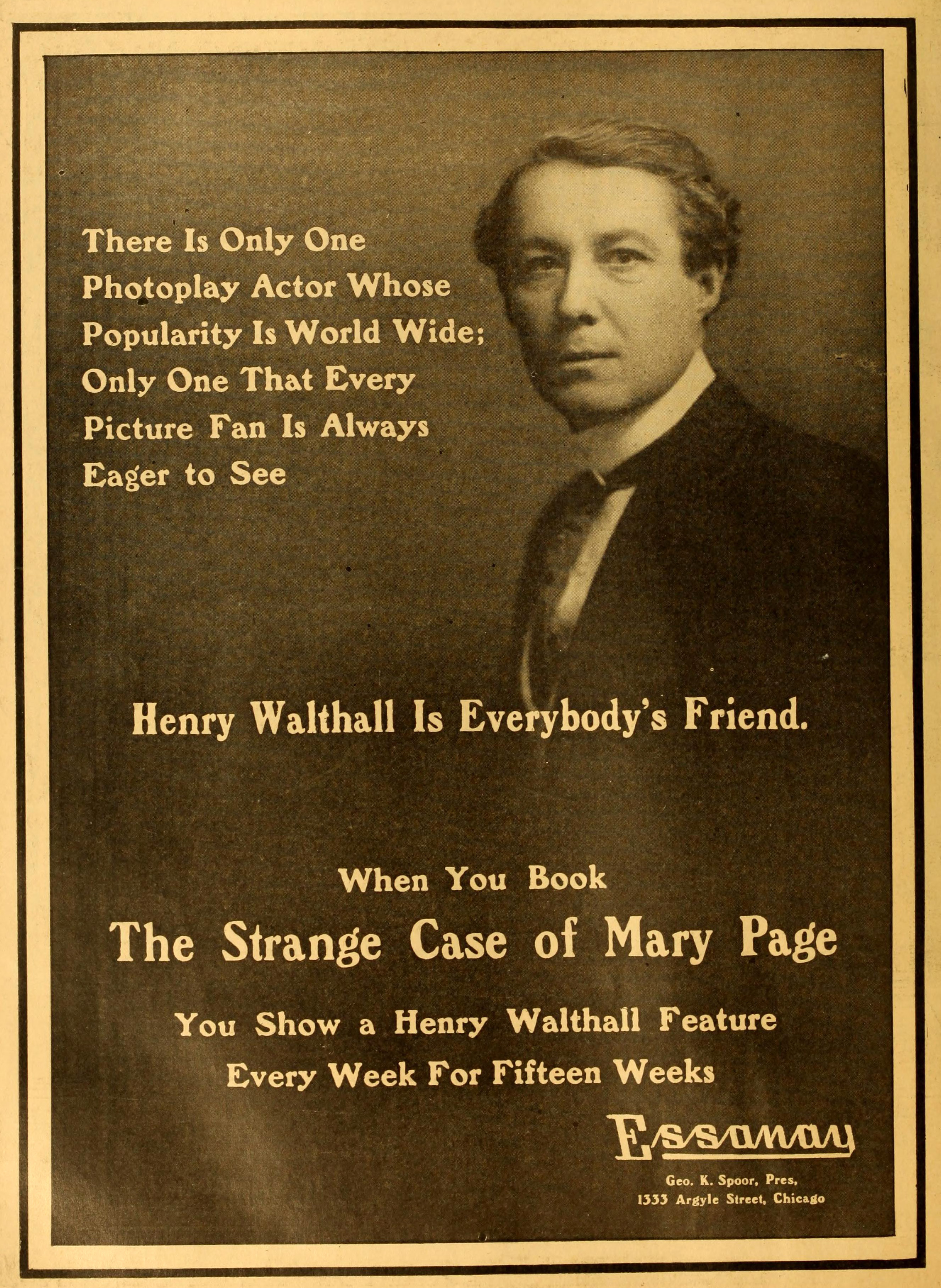 Advertisement in The Moving Picture World for The Strange Case of Mary Page (1916).